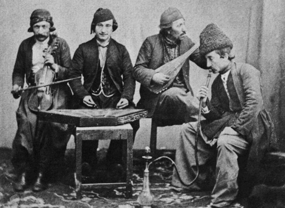 Gypsy Musician in Russian Empire, 1865 Flickr data on 2011-08-14 Tags: Gypsy, gypsy music, Russian Empire, 1865, musician License: CC BY-SA 2.0 User: paukrus Ruslan